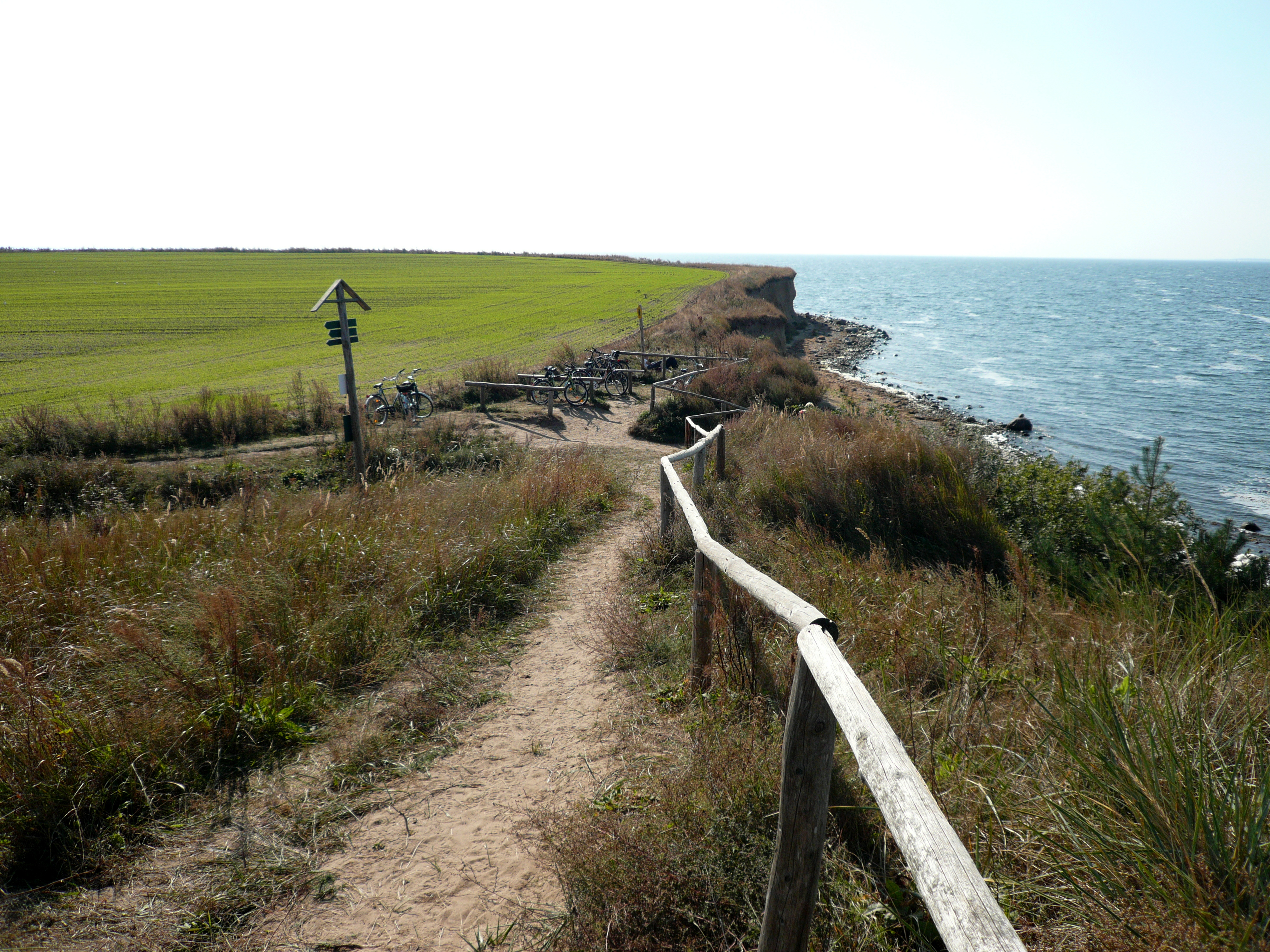 Peninsula Reddevitzer Hoeft, Ruegen